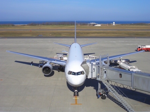 aircraft in Niigata Airport (Japan)